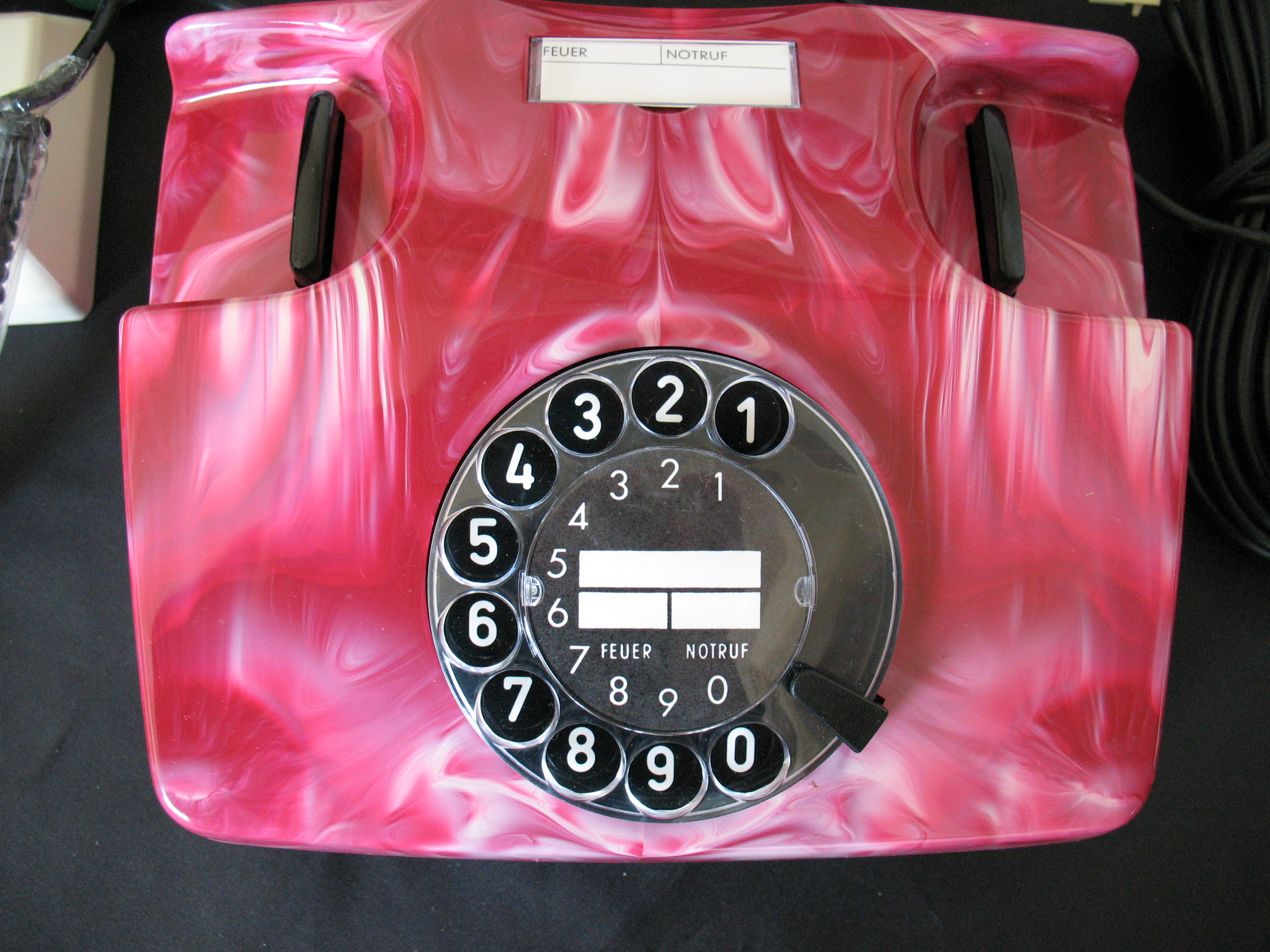 Telephone FeTAp 791 Bundespost red-marbled 1982